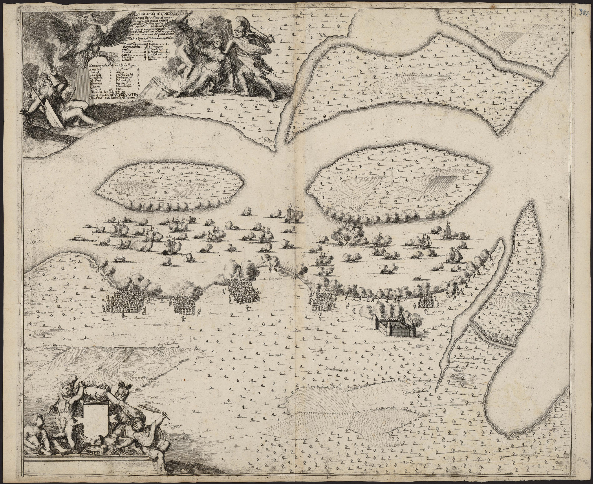 Battle on Emajõgi in 1704